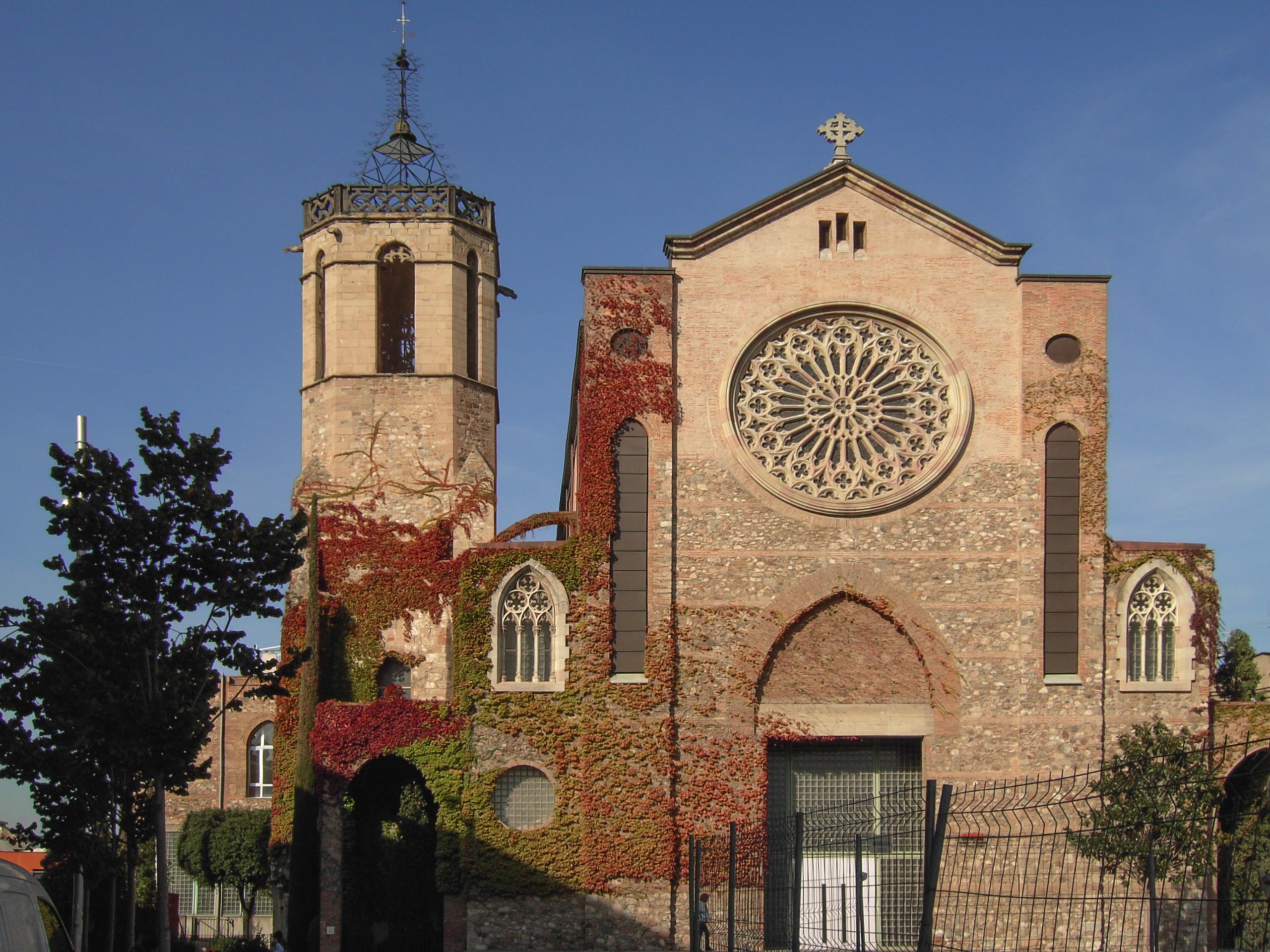 Sant Esteve church in Granollers, Catalonia